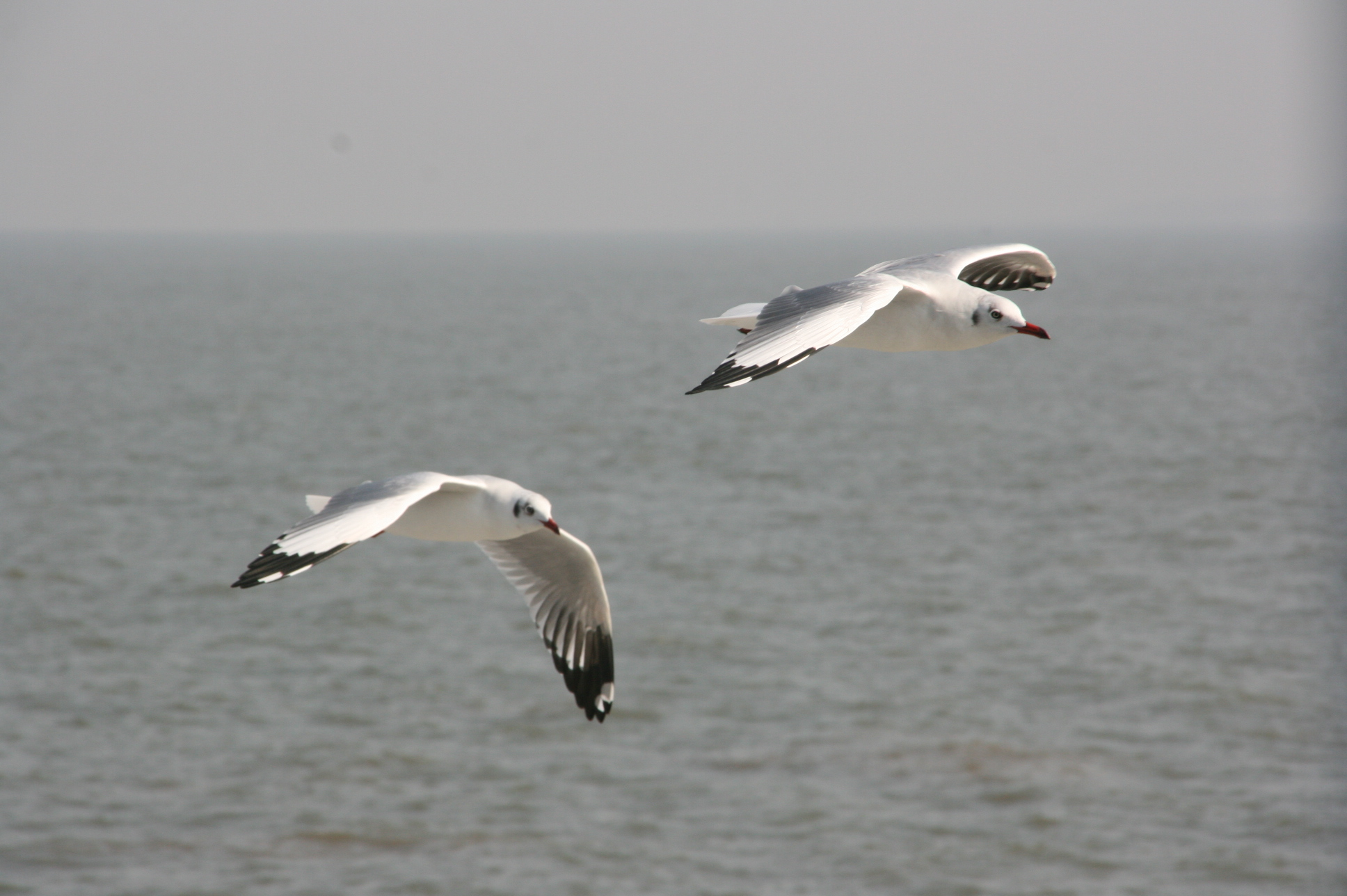 A pair of Brown-headed Gulls flying over the sea off the coast of Mumbai, India